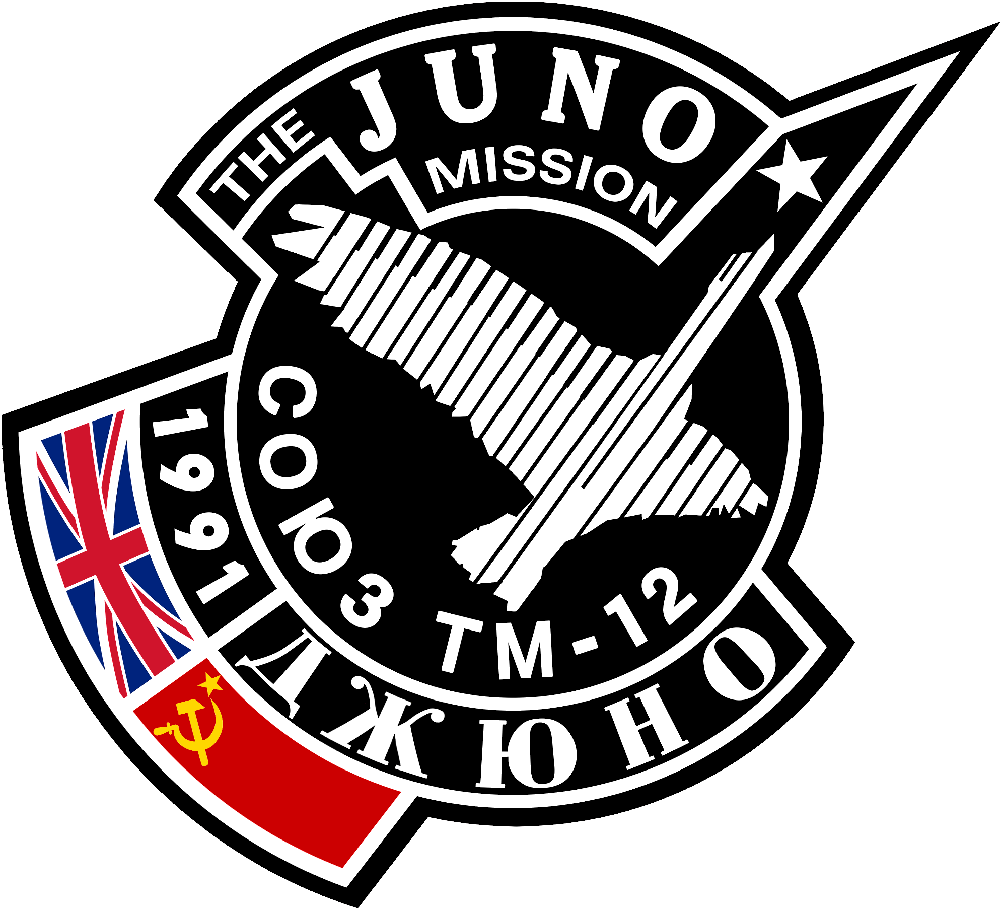 The official crew patch for the Soviet Soyuz TM-12 mission, which delivered the EO-9 and Project Juno crews to the space station Mir. The patch was redrawn by Jorge Cartes (JCR) from Spacepatches.nl